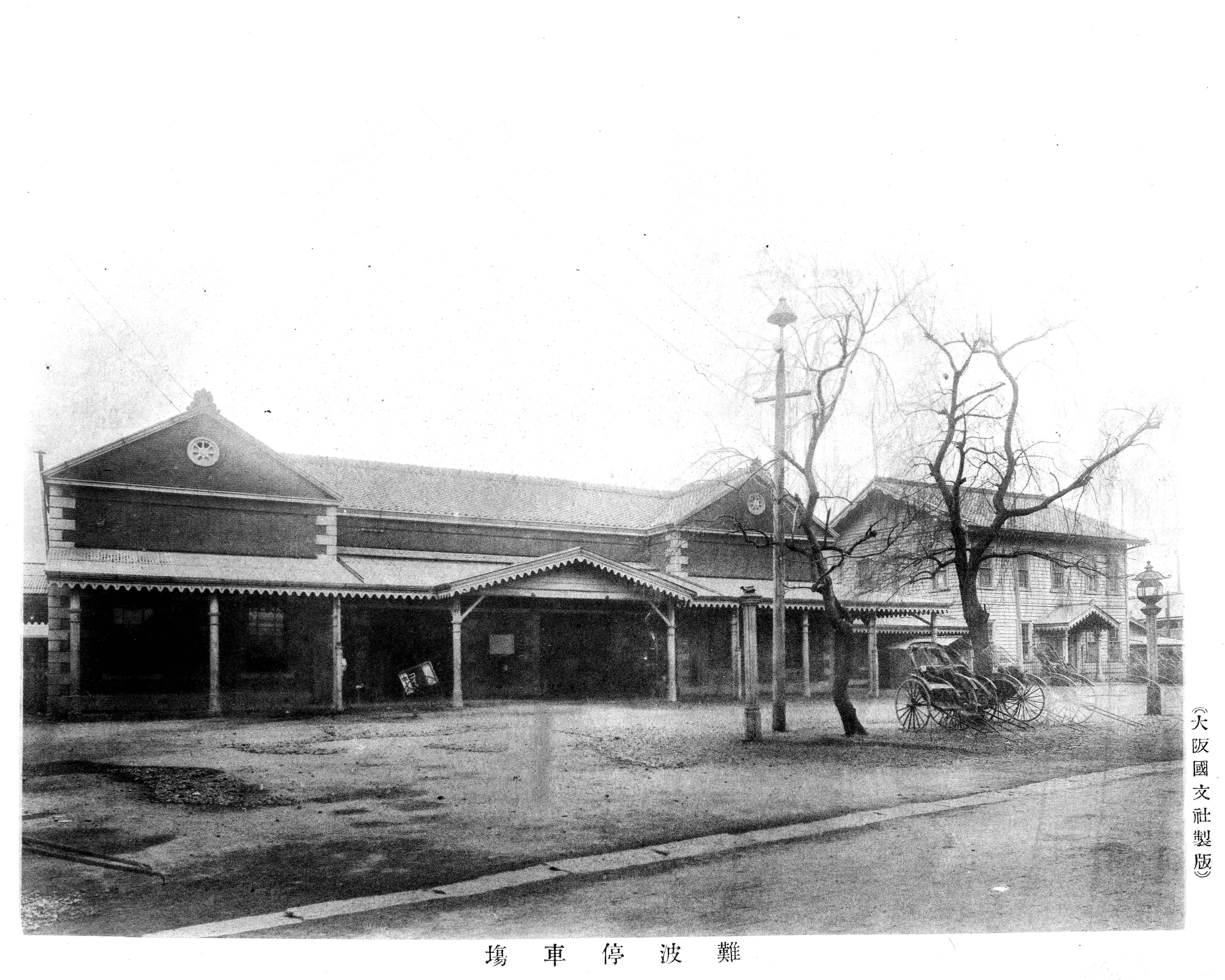 阪堺鉄道時代の難波駅 (Namba Station of Hankai Railway period)